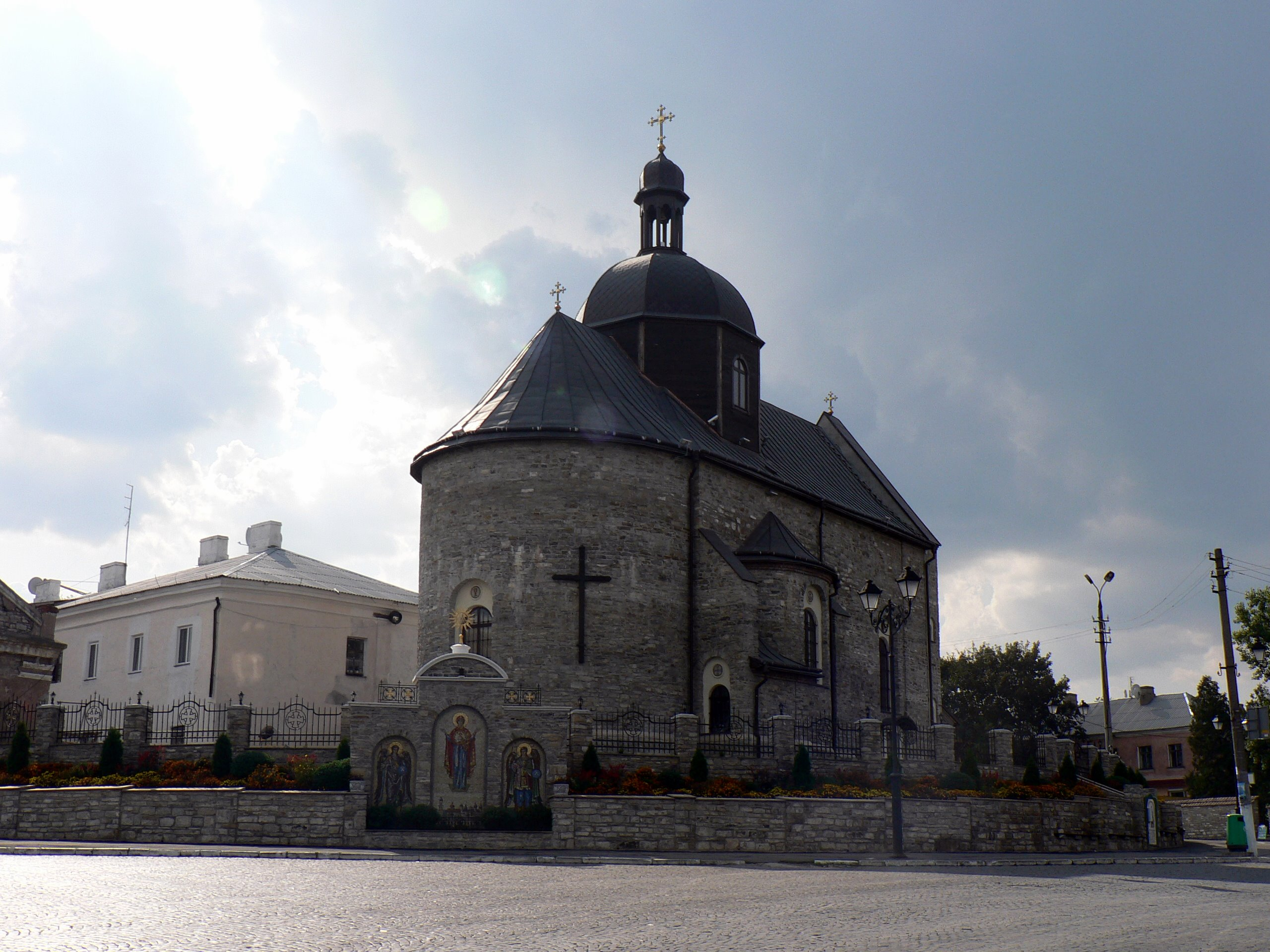 Holy Trinity church in Kamyanets Podilsky